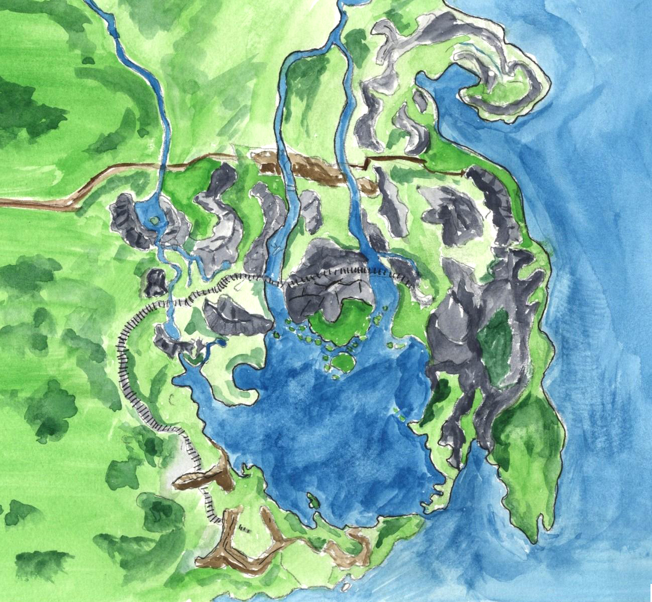 Approximate representation of a fantasy world at watercolor painting.